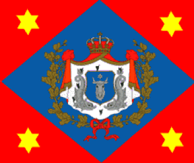 War flag and naval ensign of the Principality of Moldavia (1856-1859)